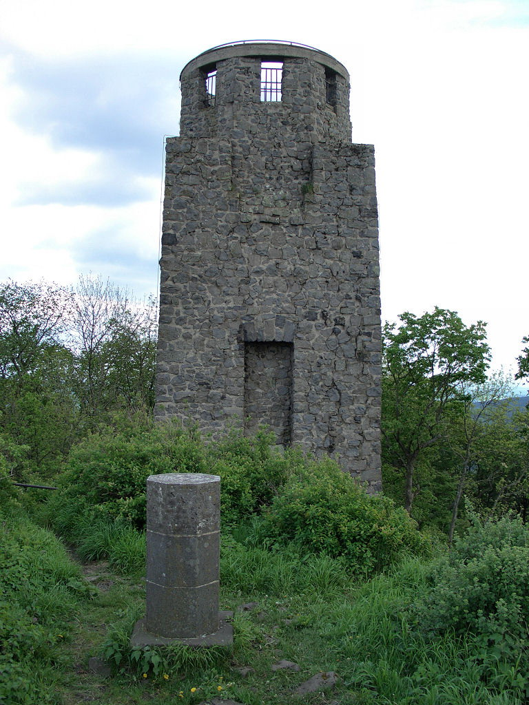 Peak of the Hohen Acht with Kaiser-Wilhelm-Turm